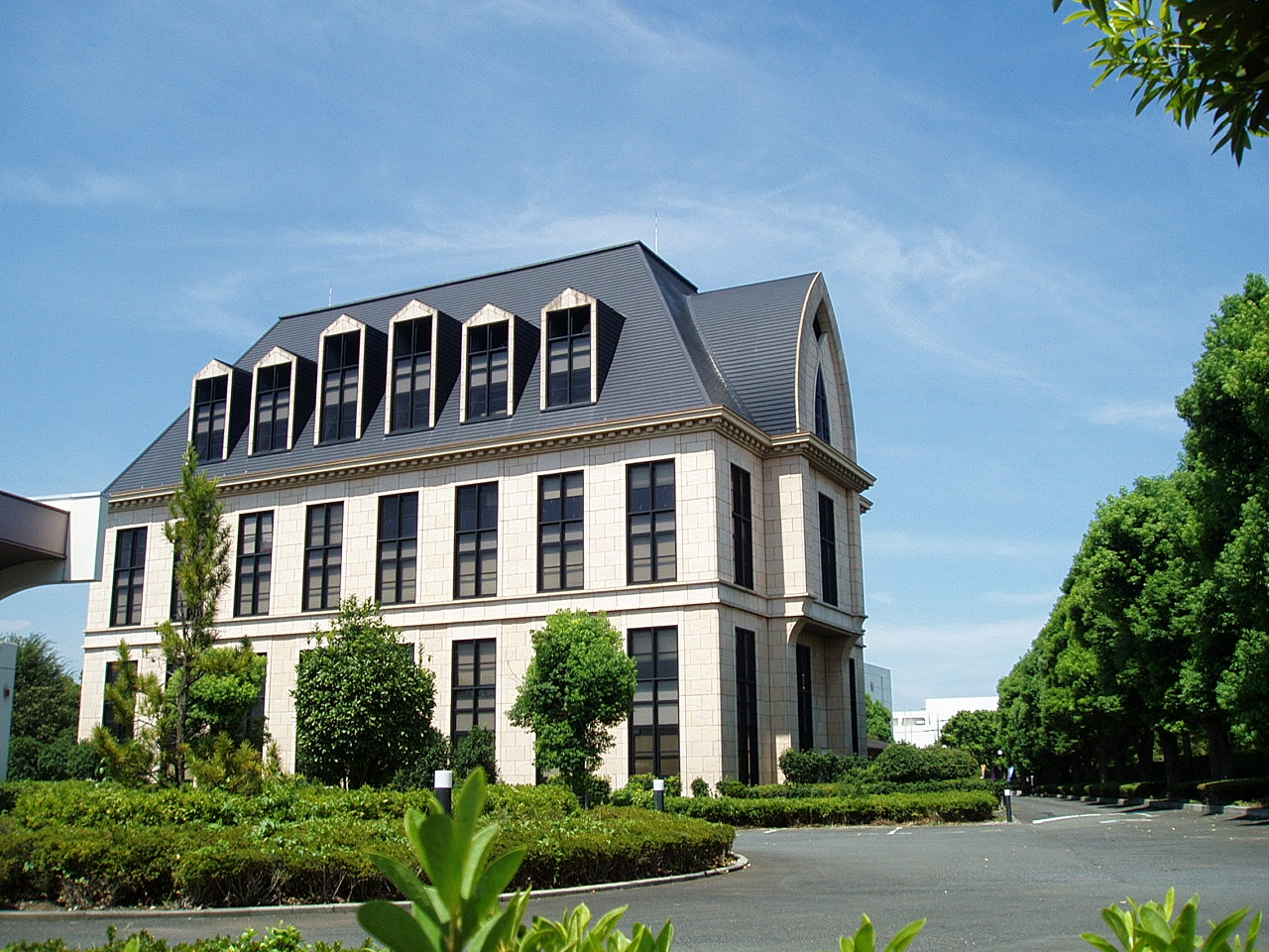 The library of Musashino Gakuin University and Musashino Junior College, located in Sayama, Saitama, Japan.